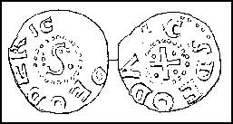 Lorraine - Thierri - Denier